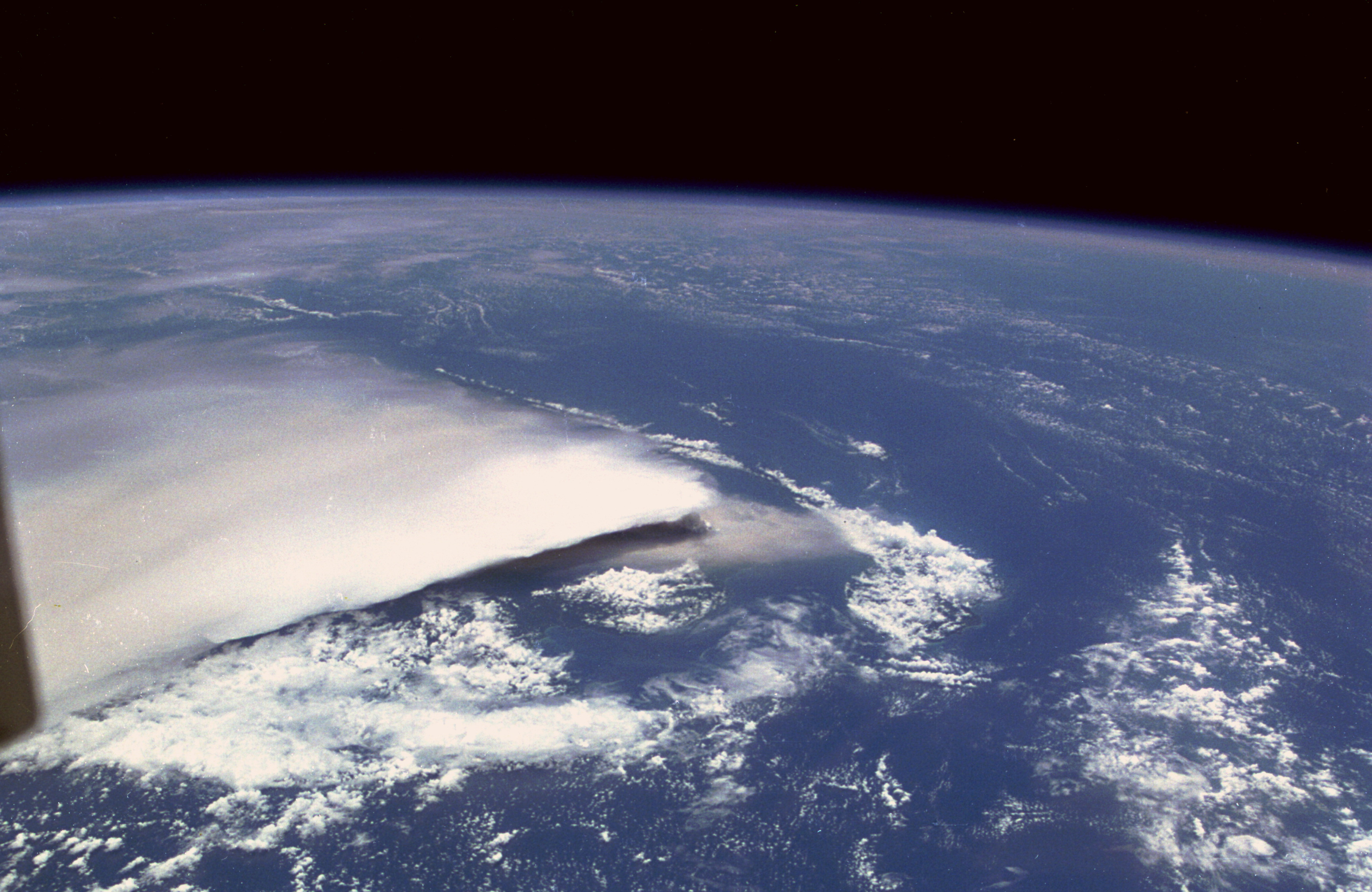 Eruption plume from Tavurvur and Vulcan, two cones of Rabaul caldera, New Britain Island, Papua New Guinea. Photographed from Space Shuttle, mission STS064.